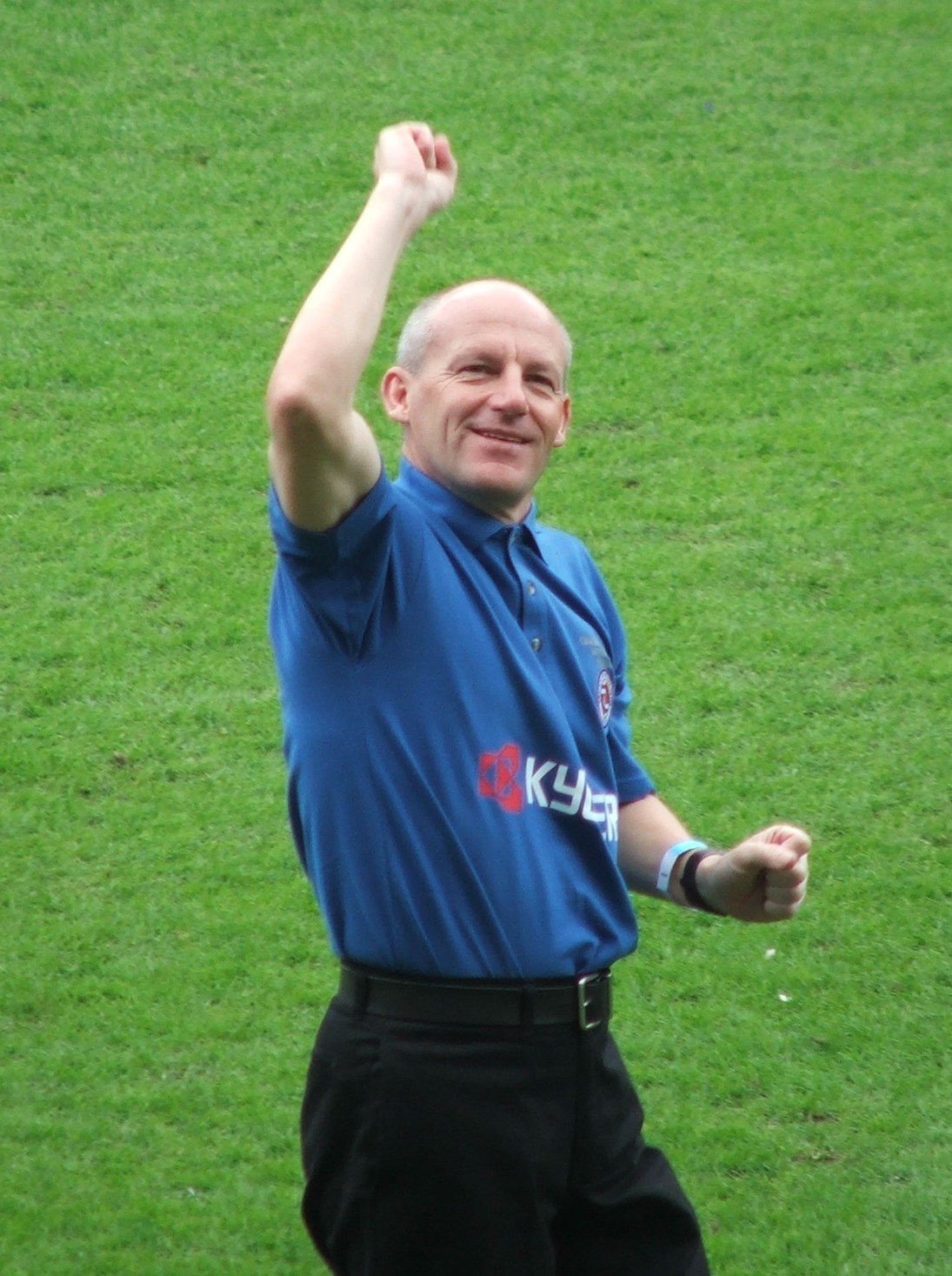 Reading's manager Steve Coppell celebrates promotion to the English Premiership